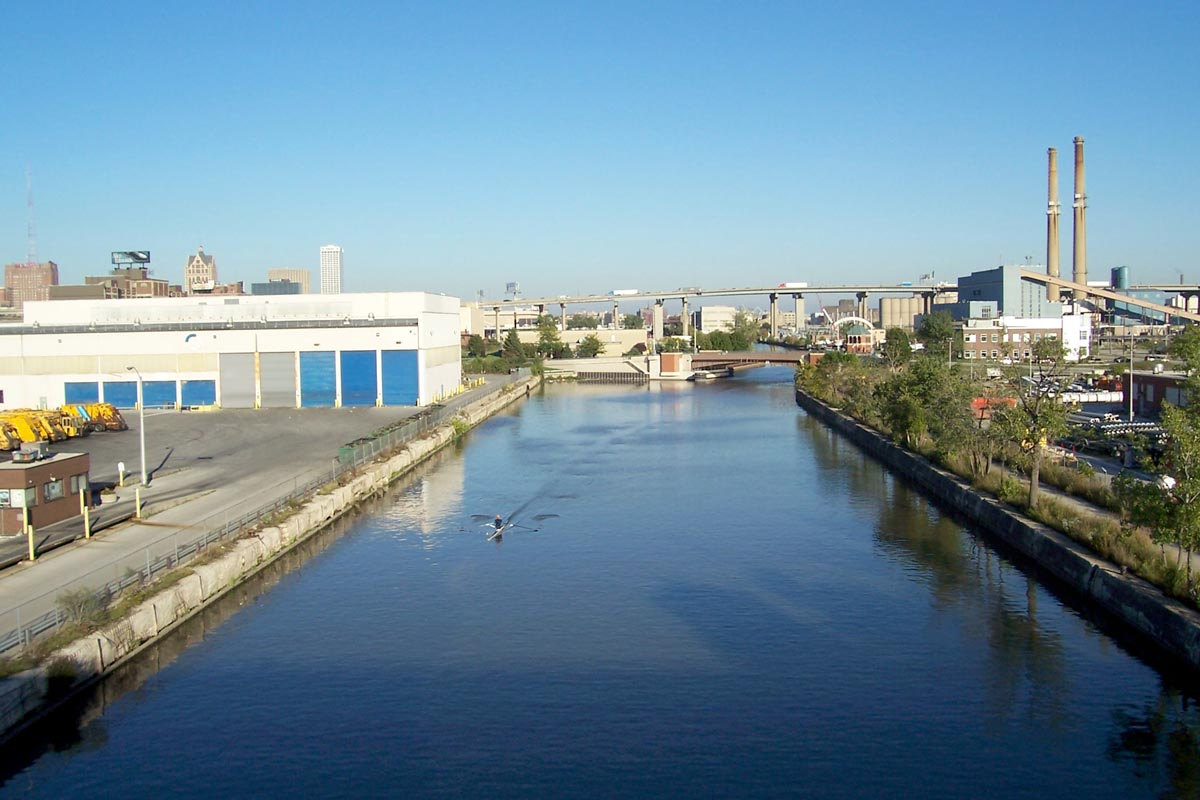 View of Menomonee River looking east from the James E. Groppi Unity Bridge (16th Street Viaduct) in Milwaukee, Wisconsin.